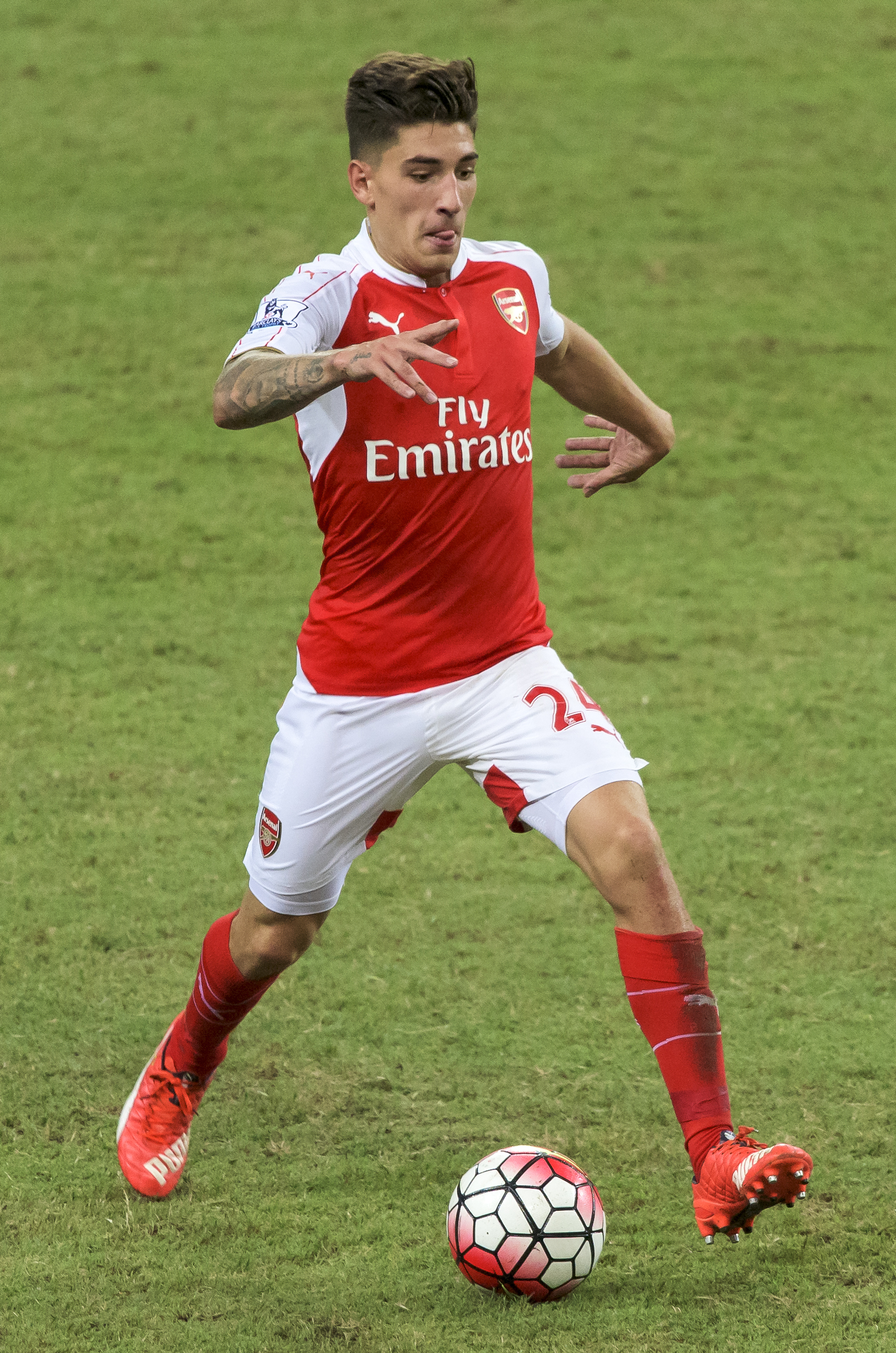 hector bellerin arsenal 2015 asia barclays trophy singapore